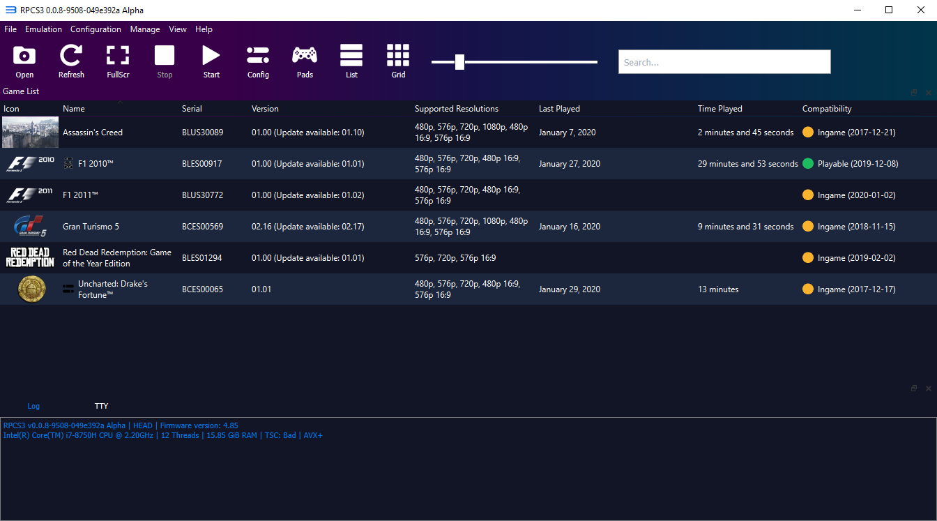 RPCS3 0.0.8 interface with Skyline Night theme and some games